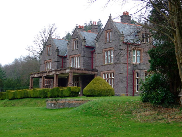 Buckland Hall, Bwlch, the West Front A lovely old house, with a long history, but now used for Retreats, Conventions and Weddings.